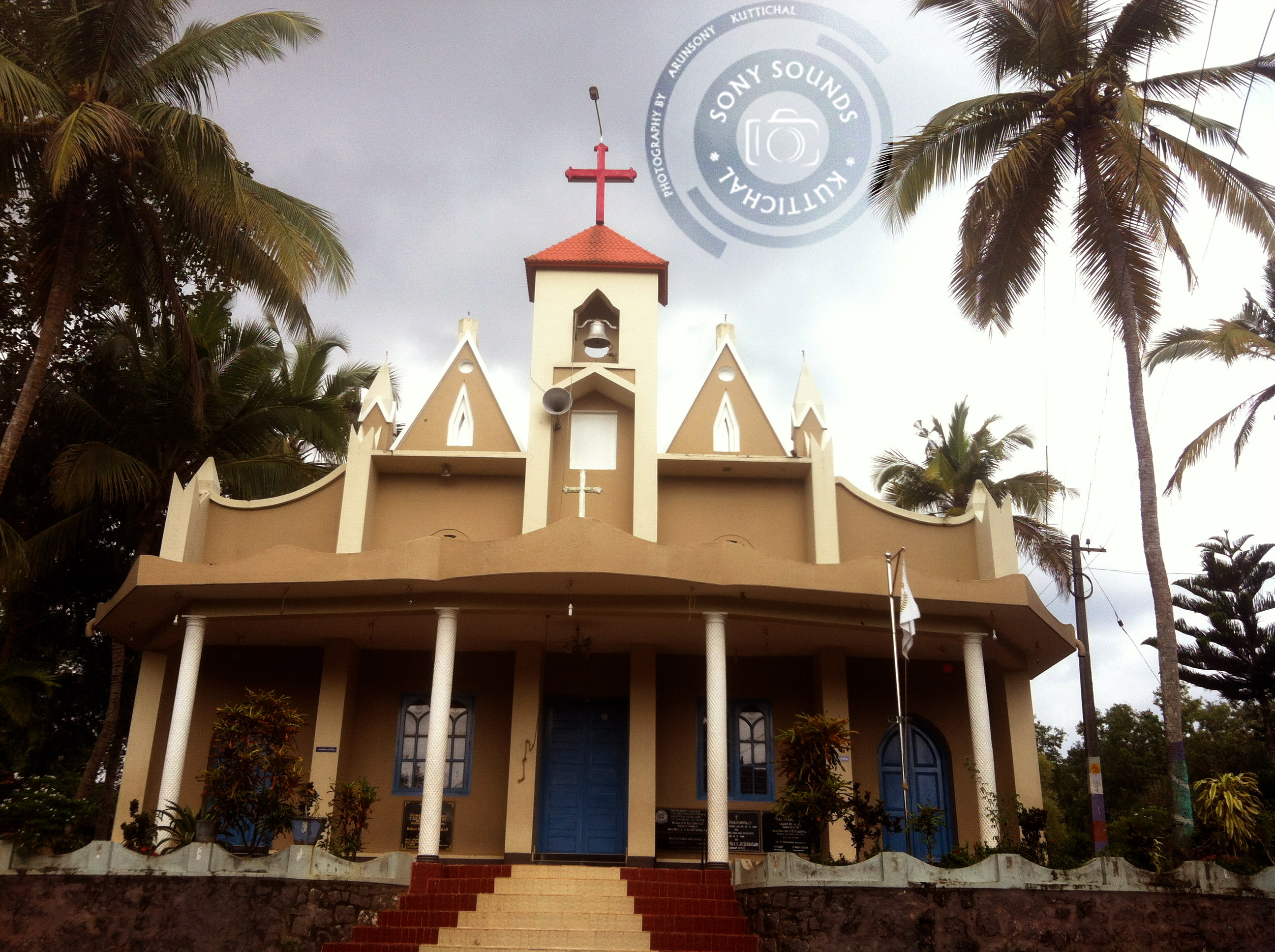 Paruthippally csi church front view